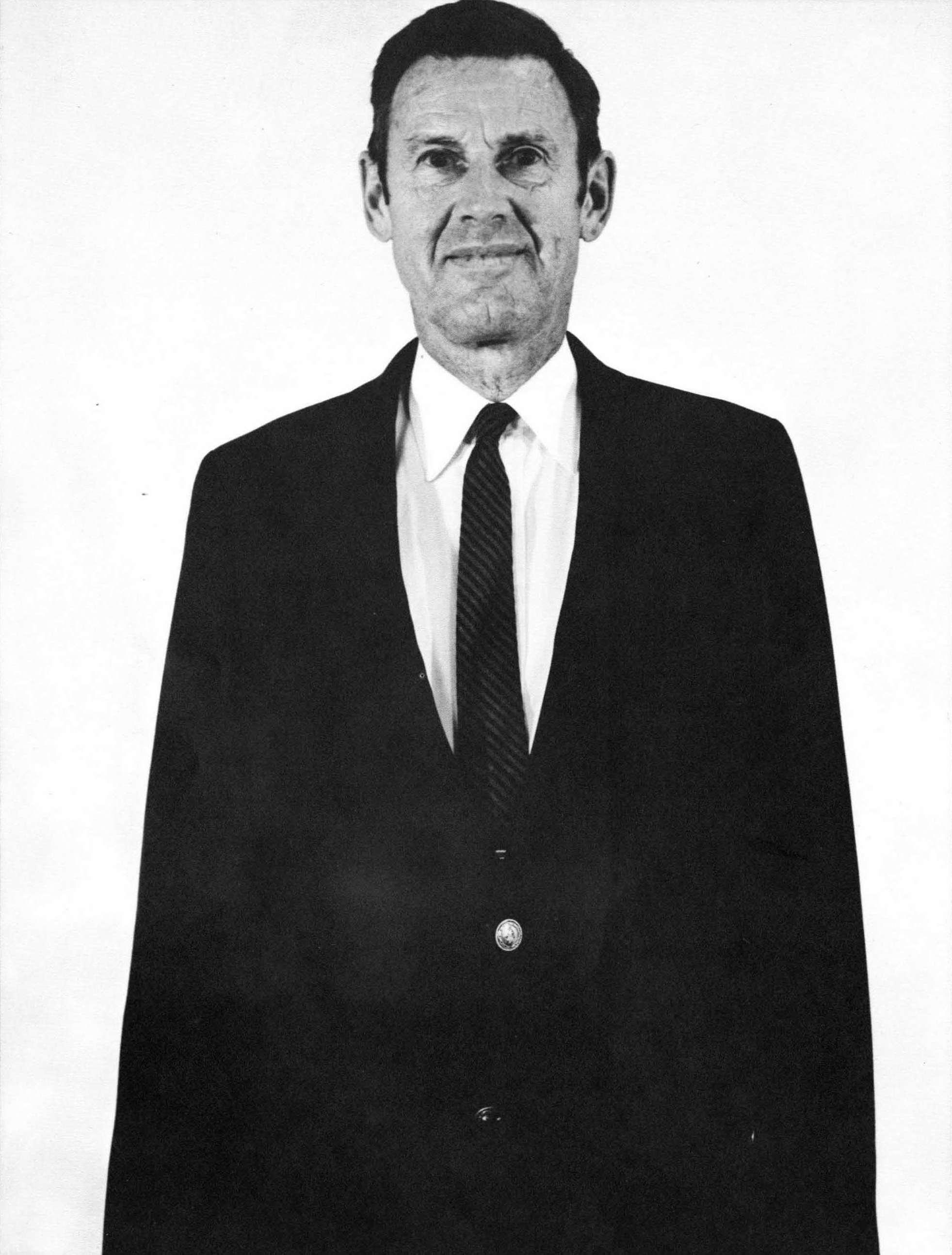 California Institute of Technology Professor Robert Christy